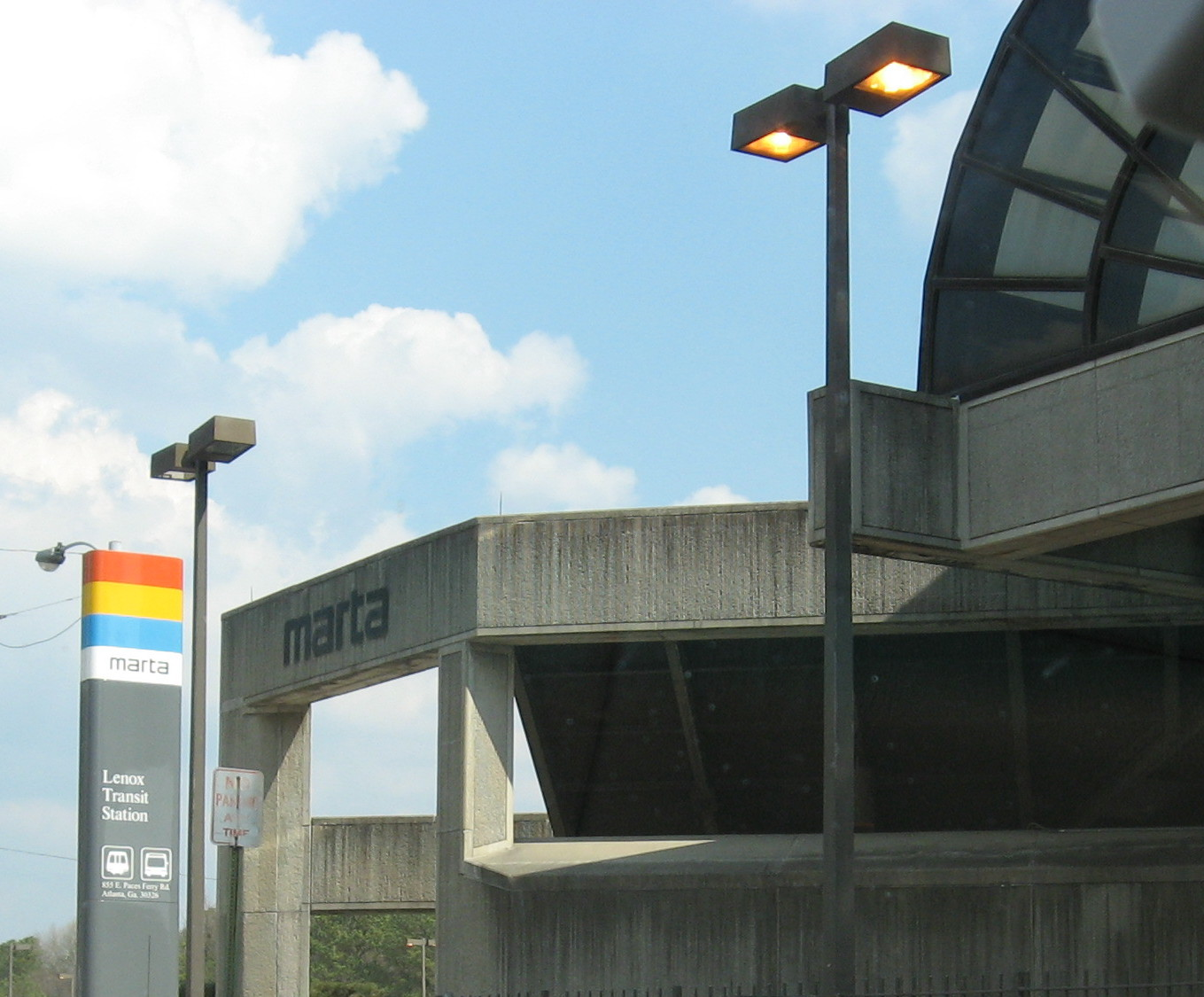 self-taken image of MARTA's lenox station